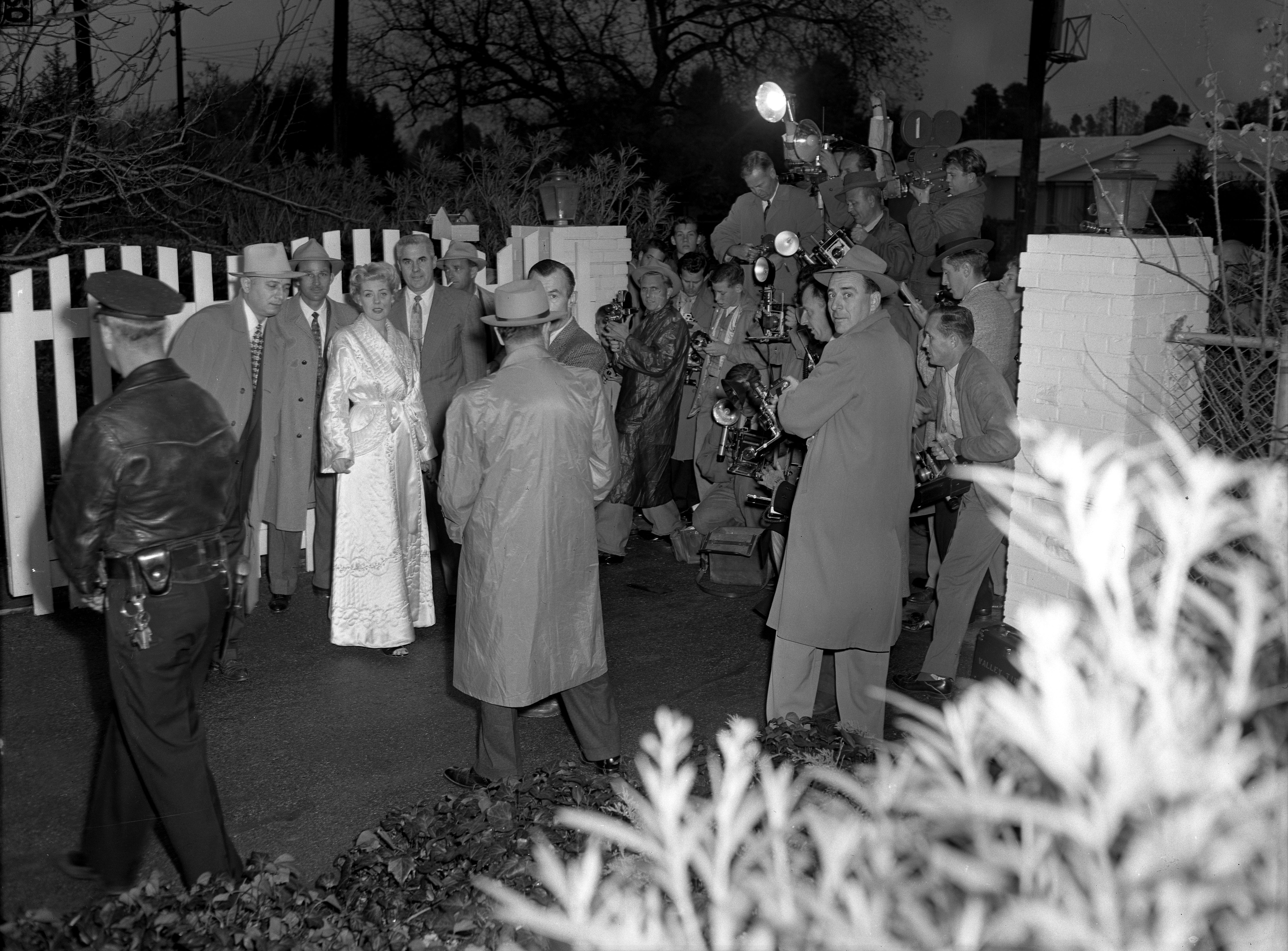 Actress Marie McDonald re-enacts scene from her story of kidnaping at home in Encino, San Fernando Valley - California.